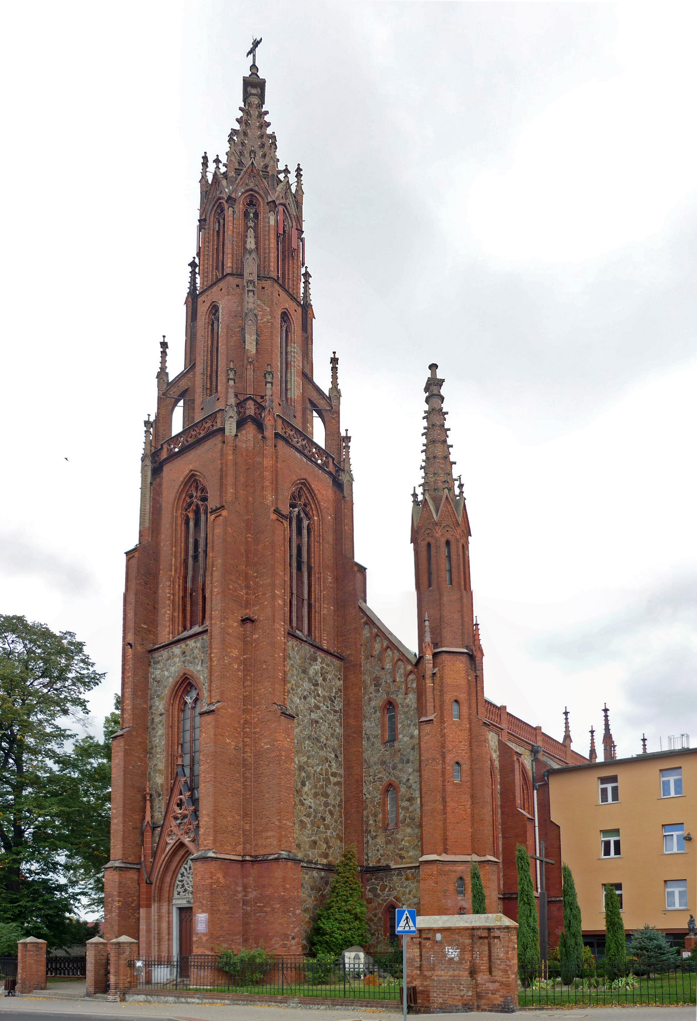 Holy Trinity church in Lubań, Poland.